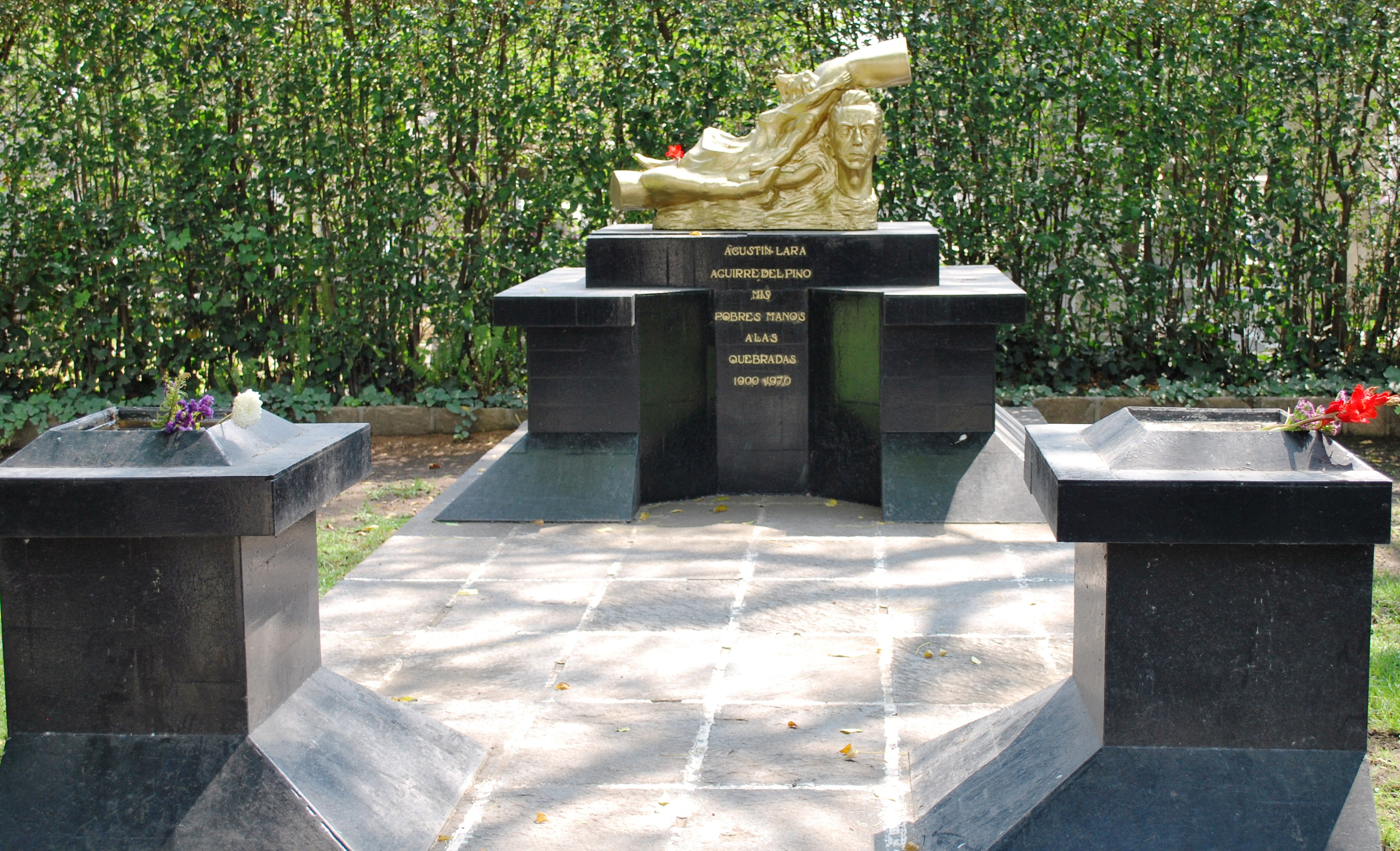 Tomb of Agustin Lara Aguirre del Pino in the Panteon Civil Dolores cemetery in Mexico City